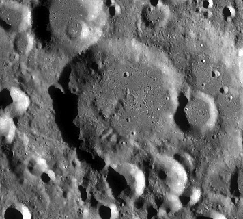 LRO-WAC